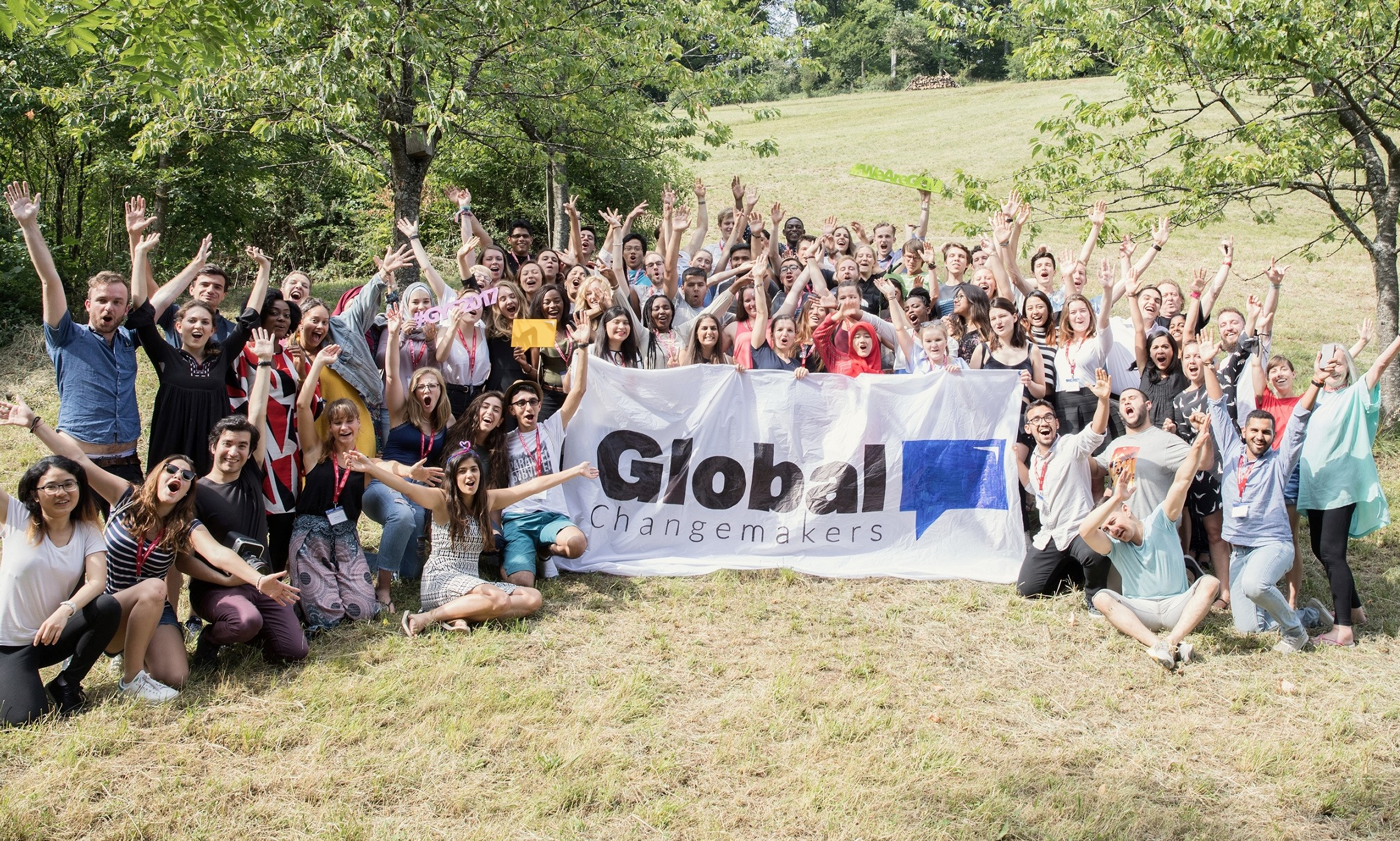 Depicted are the Global Changemakers 2017 cohort with their arms raised, holding the Global Changemakers banner, at the Global Youth Summit 2017.